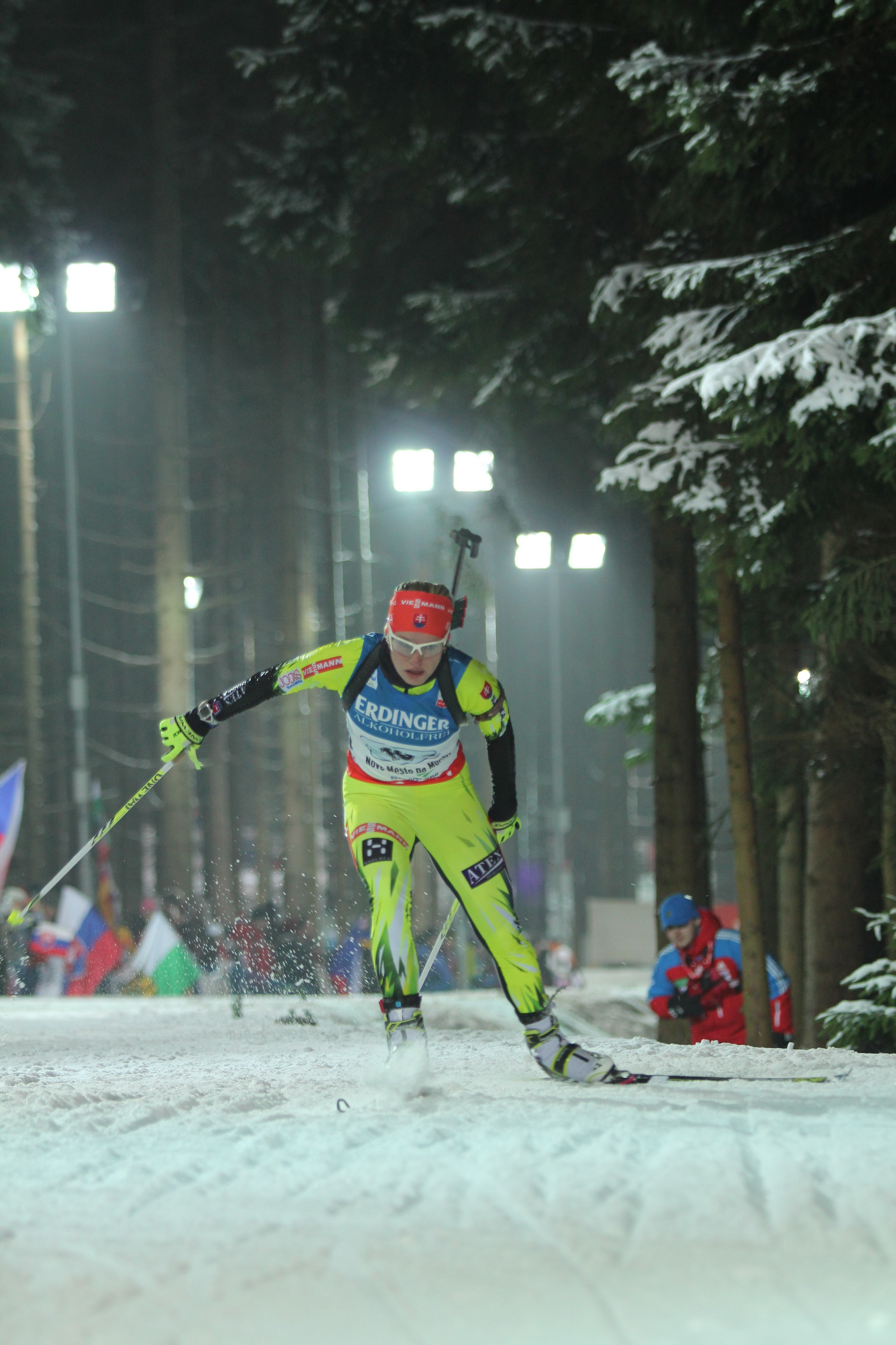 Paulina Fialková at biathlon world championchip 2013 in Nove Mesto na Morave